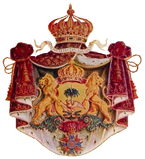 Coat of arms of Haiti from 1849 to 1859 (Soulouque empire).